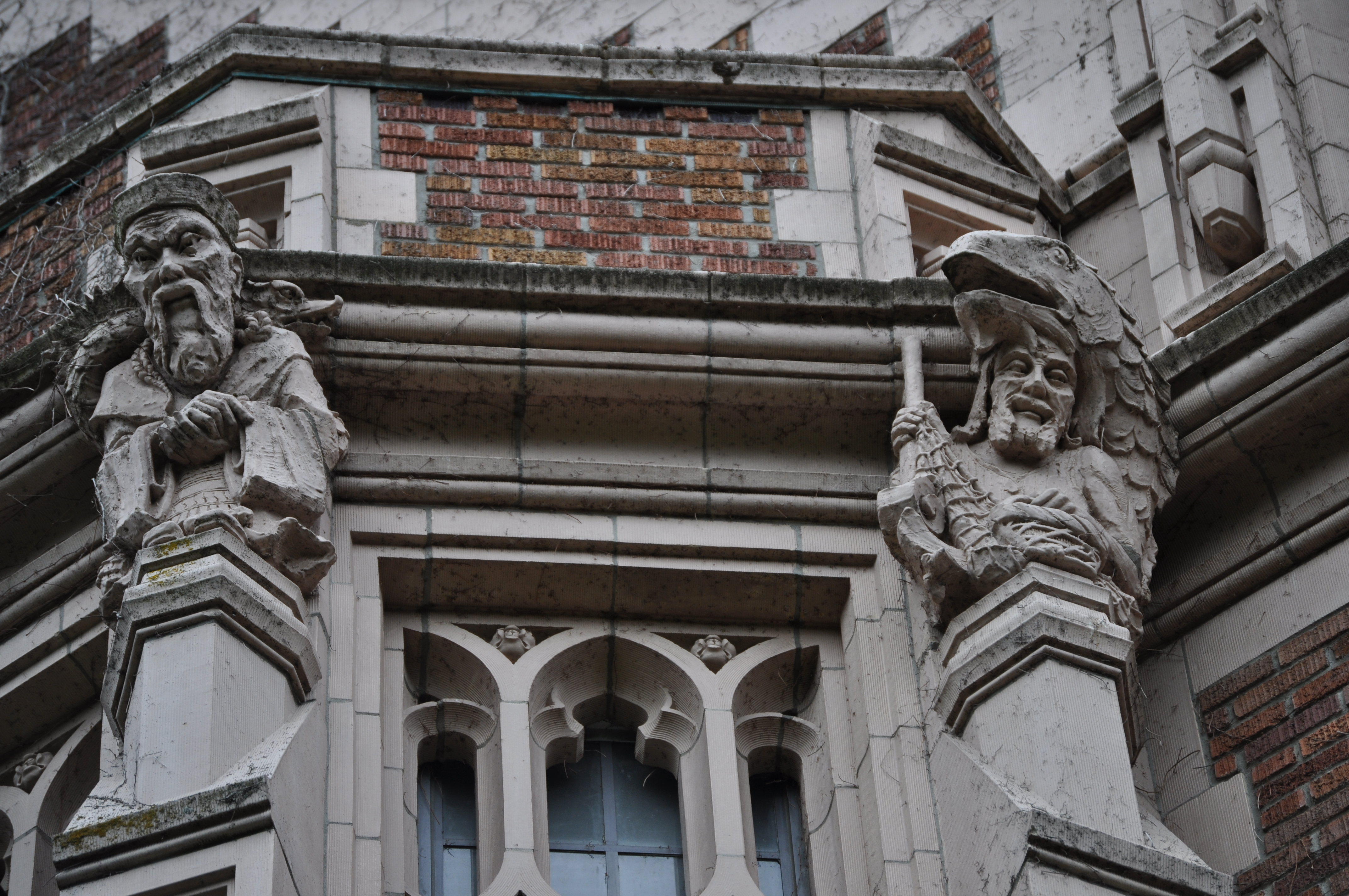 "Chinese teacher (Confucius)" and "Fish teacher", sculptures by Alonzo Victor Lewis, 1922. Confucius is depicted with a small dragon draped over his shoulders. West face of Miller Hall (facing the Quad), University of Washington, Seattle, Washington, USA. Two of many sculptures by Lewis for this building; there are also a few of his elsewhere at the University.